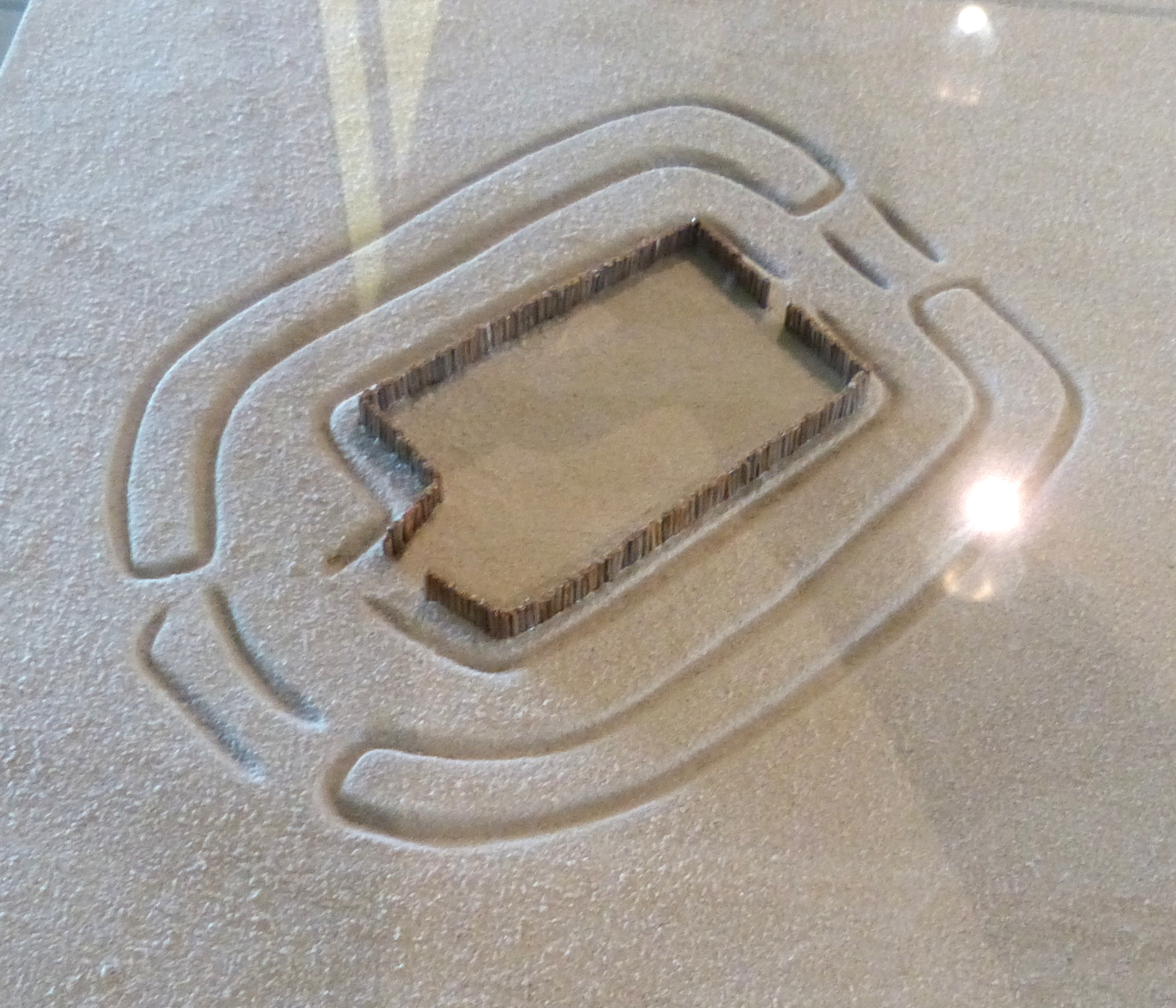 Landau an der Isar ( Lower Bavaria ). Archaeological Museum of Lower Bavaria: Model of neolithic earthwork of Altheim ( Essenbach ).